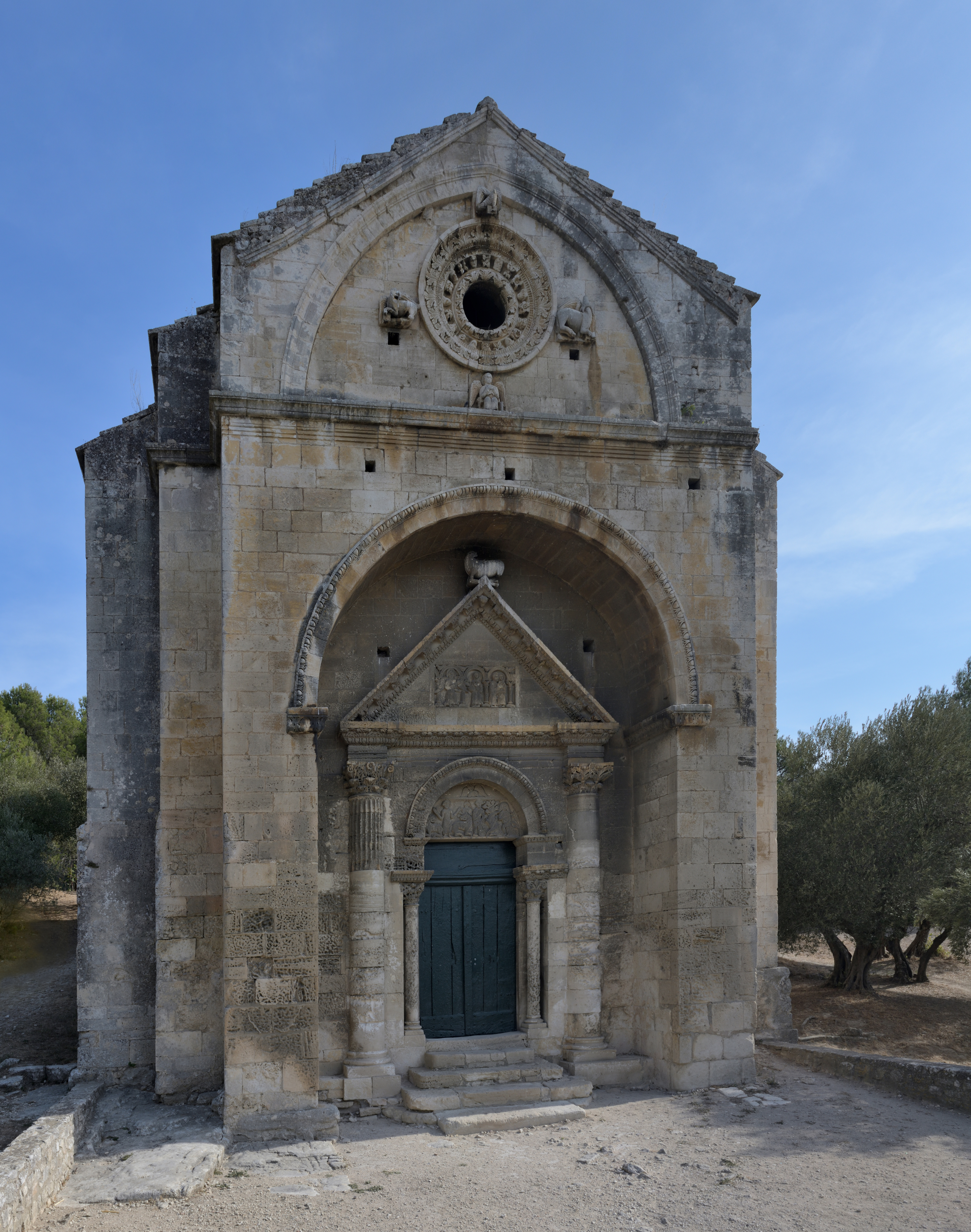 The facade of the Chapelle Saint-Gabriel de Tarascon chapel in France.